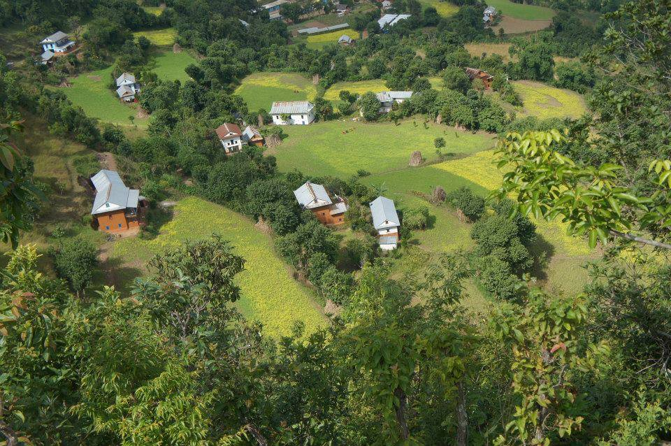 famous place of Arghakhanchi